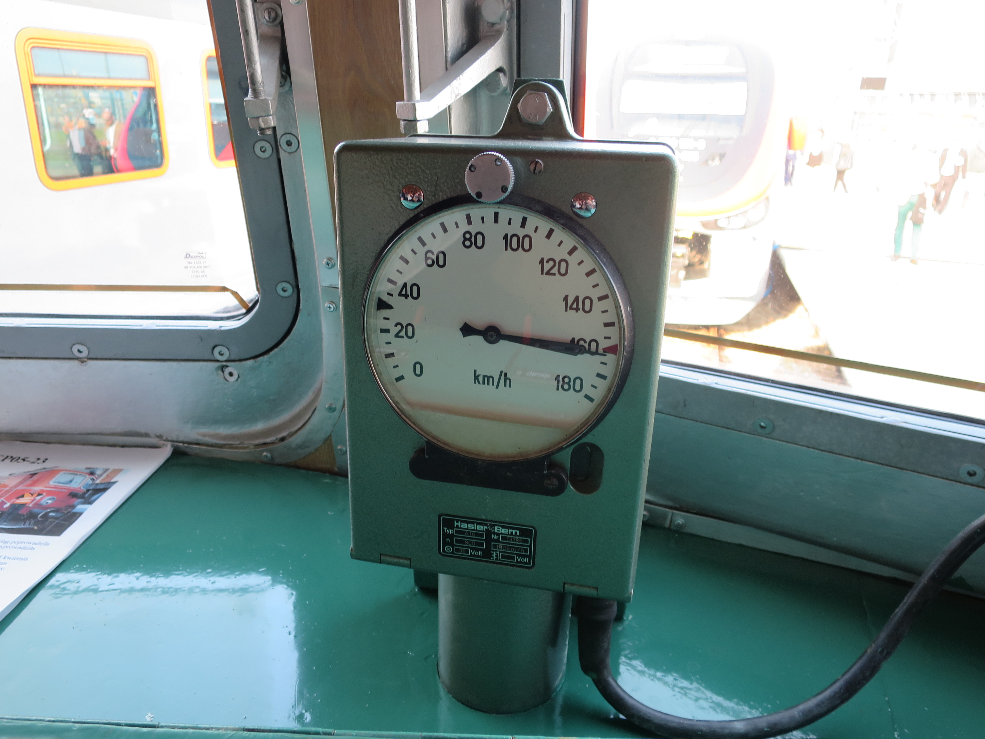 The making of this document was supported by Wikimedia Polska Association, within Wikigrant no. WG 2017-44. EP05-23